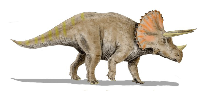 Triceratops horridus